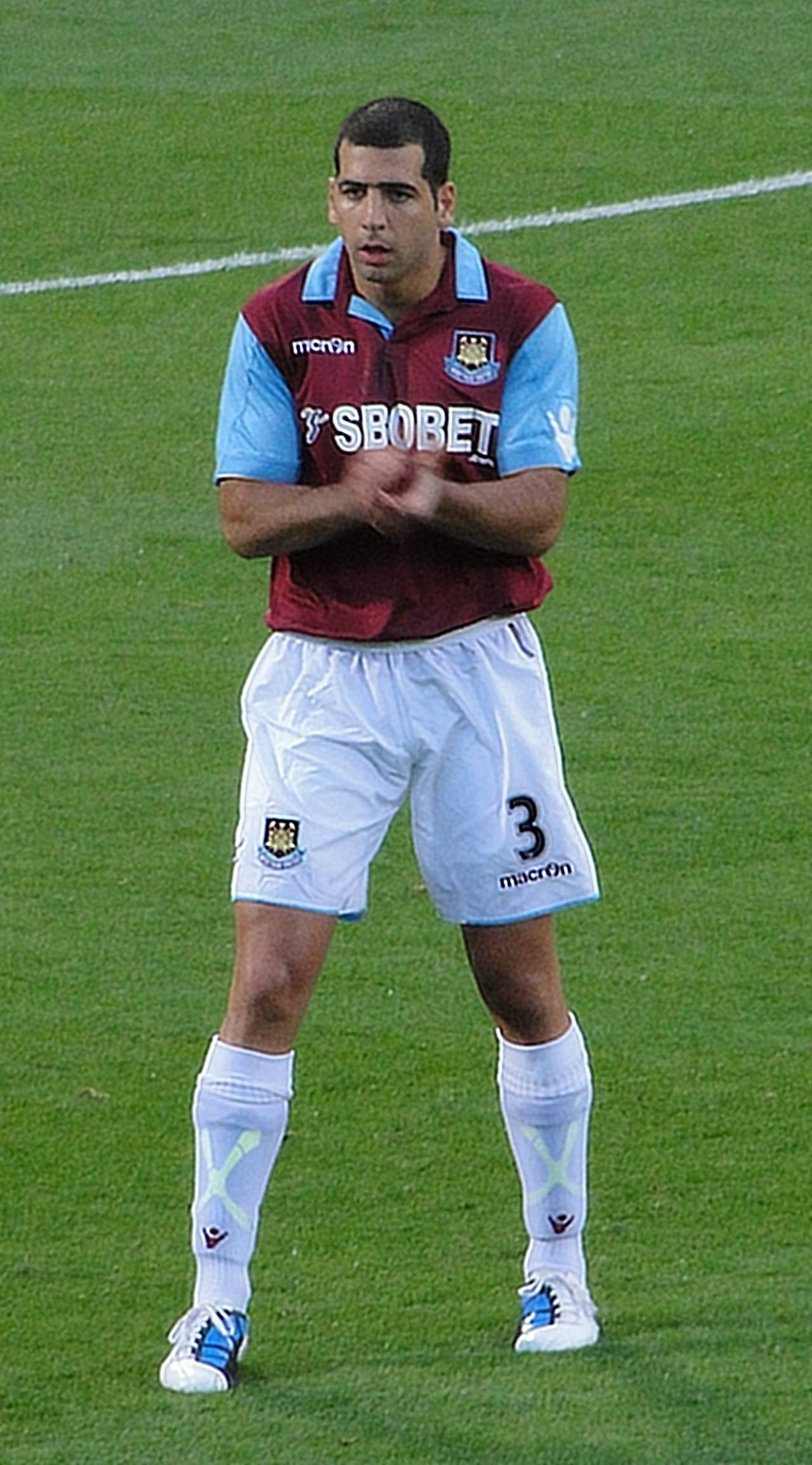 West Ham player Tal Ben Haim making his debut against Oxford United, 24 August 2010